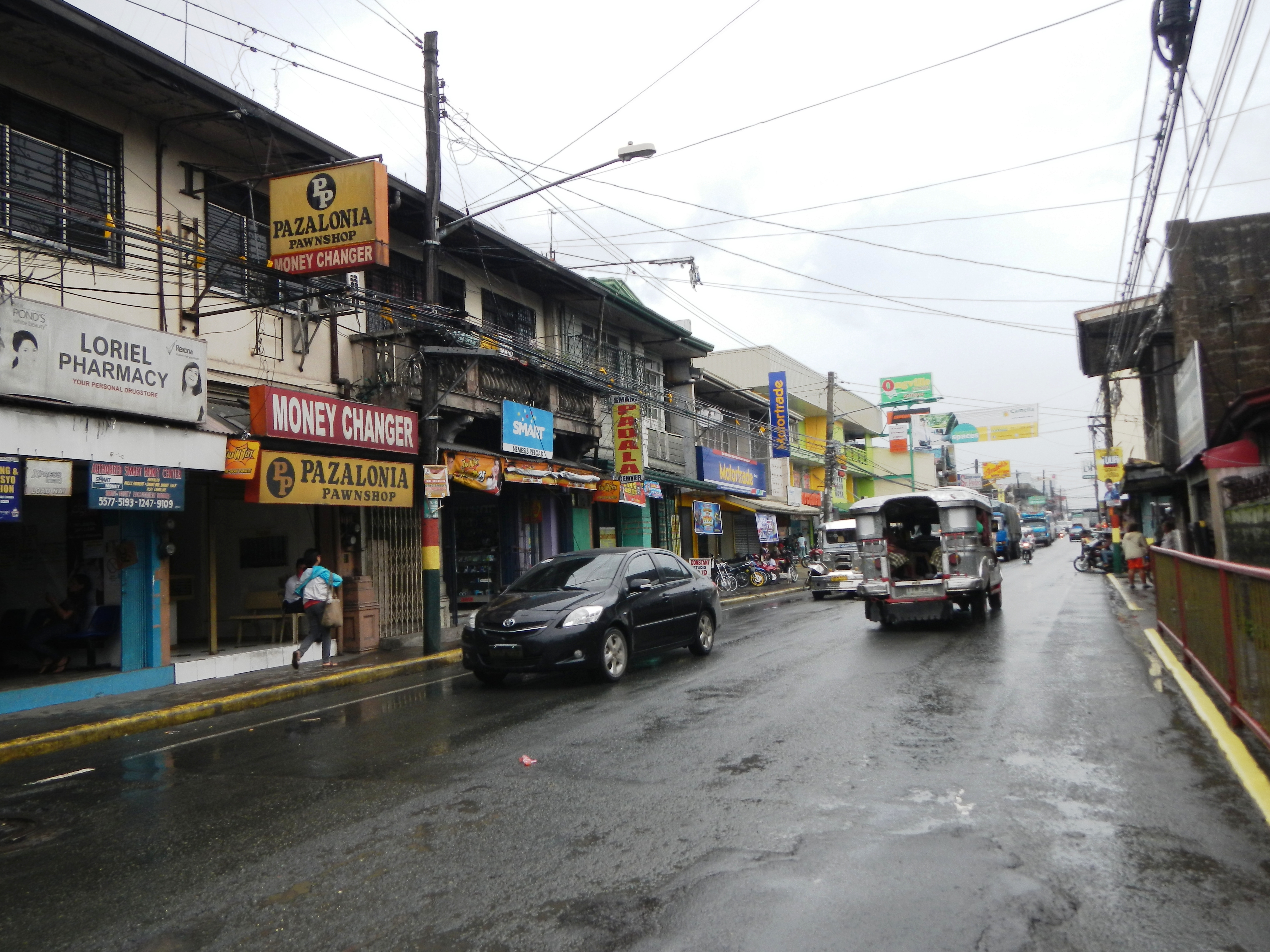 Upload Wizard -- (general description of landmarkds, town, church) - of - Sariaya Bread House, since 1982, Rizal St., cor. Gen. Luna St., Barangay Poblacion 2, South Emerald Supermarket, Apple Bakery building, Town Proper, Maharlika of Pan-Philippine Highway, road to Labak Resort, - & the - the Art Deco-styled (early 1900s), PH-40-0099 Ancestral [1] 13°57′48″N 121°31′28″E House of Governor Natalio Enriquez in Sariaya, Quezon;Sariaya Ancestral Houses [2] along Maharlika Highway, brick-roofed Sariaya landmark near the church, known as the Governor Natalio Enriquez Ancestral House designed by European schooled architect Andres Luna de San Pedro, son of artist Juan Luna built in 1931 for then Tayabas Provincial Governor Natalio Enriquez (1941 – 1945) and his wife Susana Gala, listed by the National Historical Institute as a Heritage House on May 2008. [3] - a Beaux Art castle next to the church designed by Andres Luna de San Pedro, son of master painter Juan Luna in 1931, the Natalio Enriquez house was a venue of the 1938 wedding of Alicia Enriquez to Manuel Gala where Philippine Commonwealth First Lady Aurora Aragon Quezon was principal sponsor) - List of Cultural Properties of the Philippines[4] - Ancestral houses of the Philippines[5], CALABARZON [6] region, List of Cultural Properties of the Philippines in CALABARZON[7] - (Legislative districts of Quezon National Assembly 1943–1944[8] National Assembly (Second Philippine Republic) [9]).